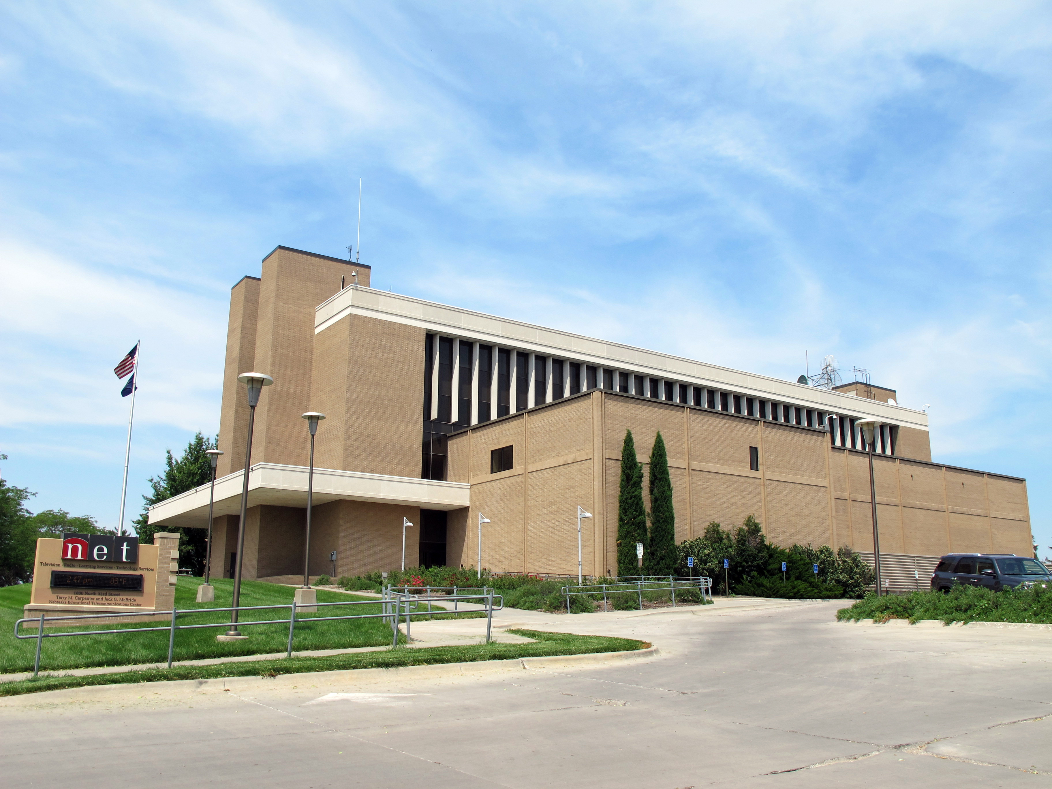 Photo of Nebraska Educational Telecommunications, 1800 N. 33rd Street in Lincoln, Nebraska. Photo is taken from the southwest, looking northeast towards the station.